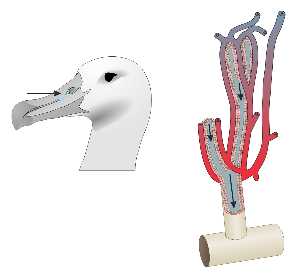 Salt gland of marine birds. Work in progress, made for graphics lab at Ukr Wiki